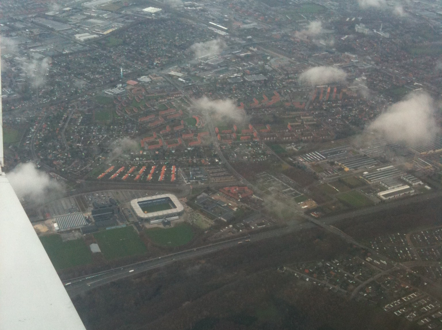 Bröndby, a municipality west of Copenhagen. Visible left is Brøndby Stadium, right is Prioparken business park. In the background Bröndbyvester, in the front right corner Bröndbyöster.